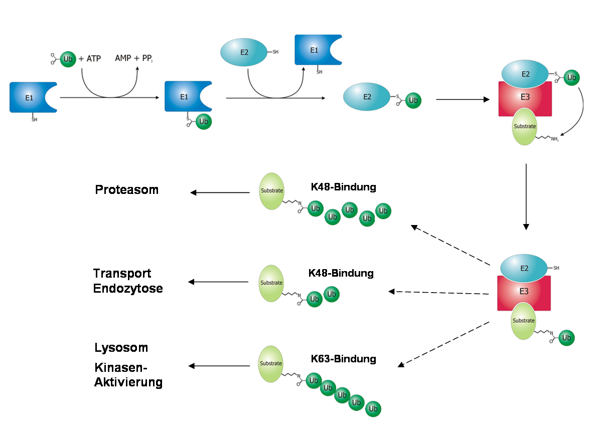 Ubiquitination of Target Proteins and its Fate